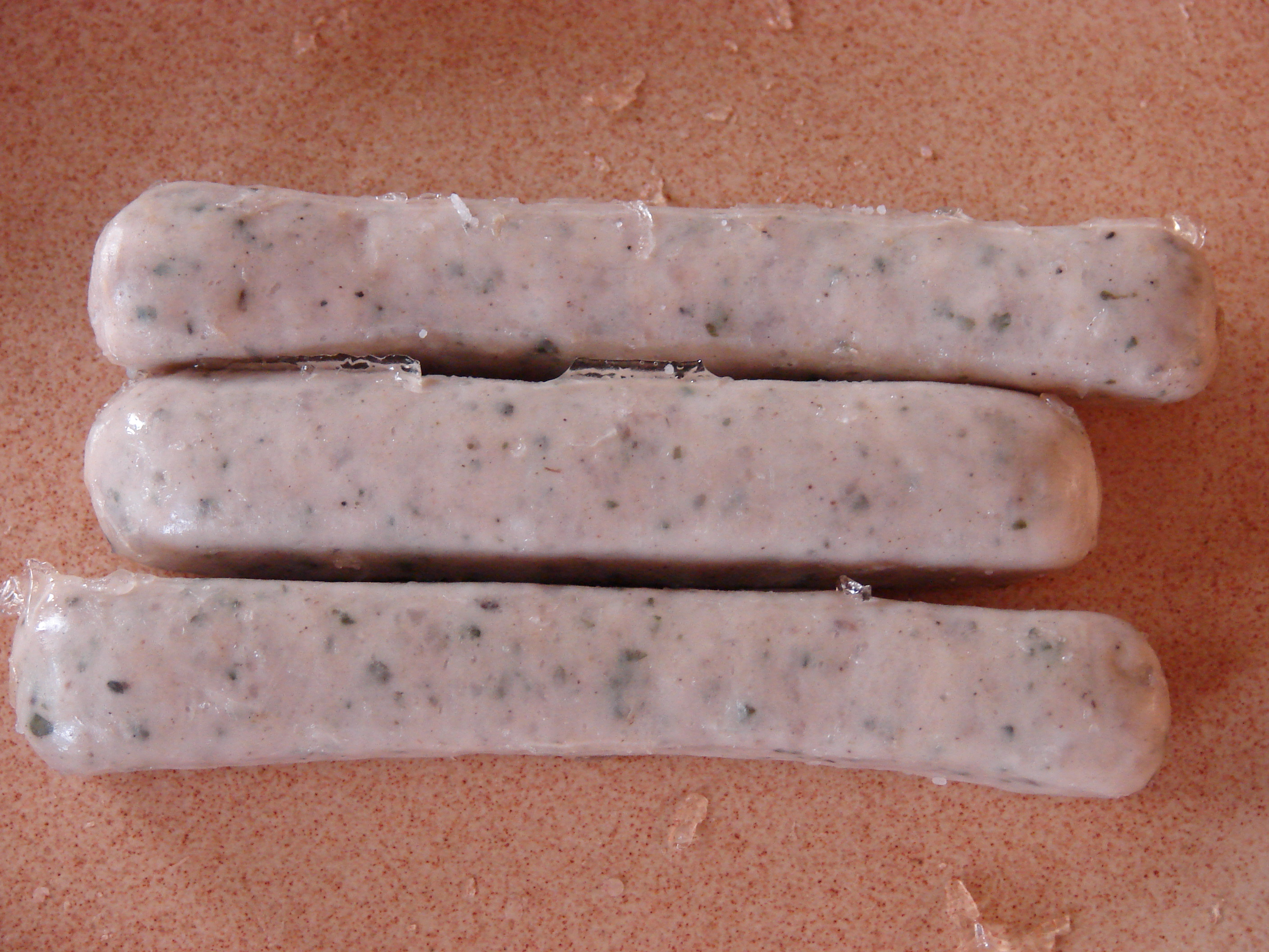 Nuremberg sausages: scalded, as they can be bought in the super market.